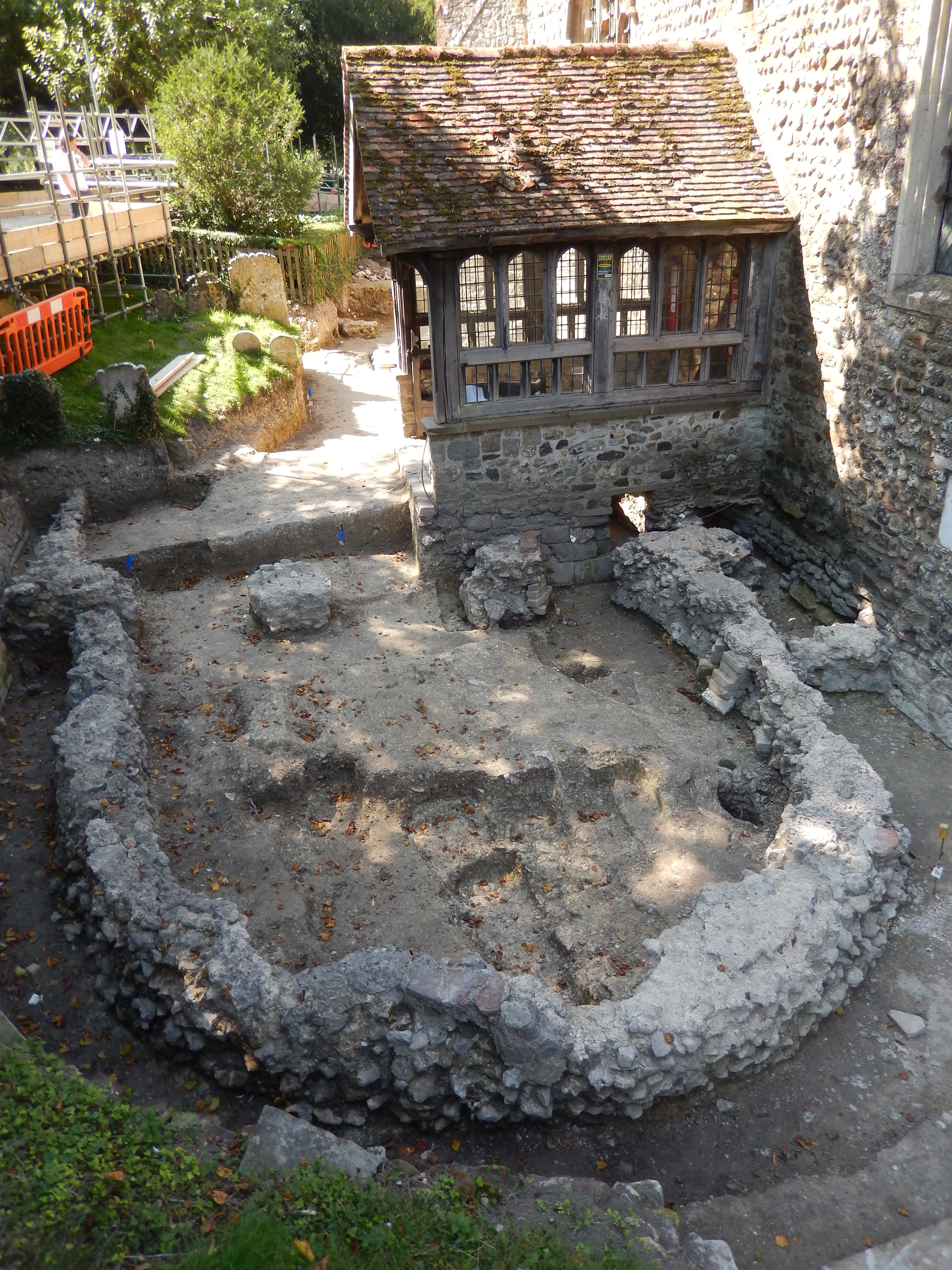 The Saxon church founded in AD 633 by Queen Ethelburga (Æthelburh of Kent) as excavated in 2019. The remains of the Saxon church are outside the south wall of the later church, with the apsidal chancel located just east of the south porch. The chancel is separated from the nave by a triple arch.